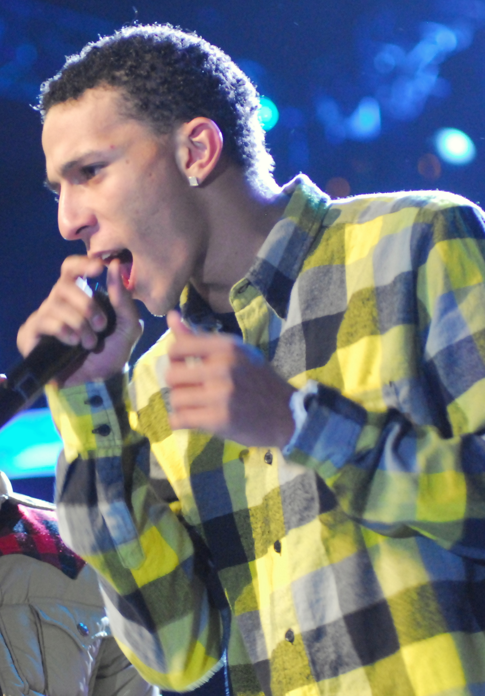 Khleo Thomas performed at the "Kids Inaugural: We Are the Future" concert at the Verizon Center in downtown Washington, D.C., Jan. 19, 2009